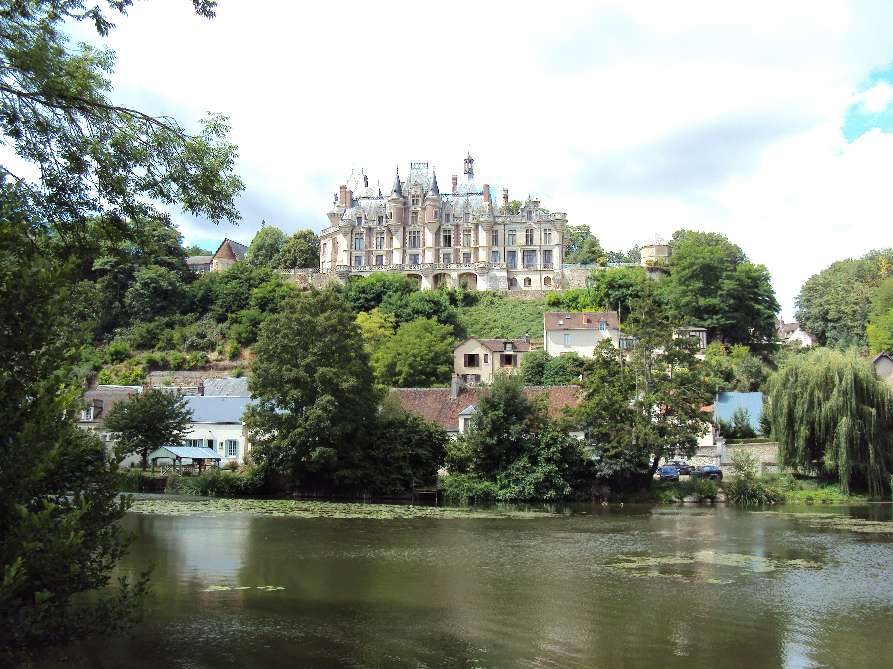 The Château de Montigny-le-Gannelon (Eure-et-Loir, France).